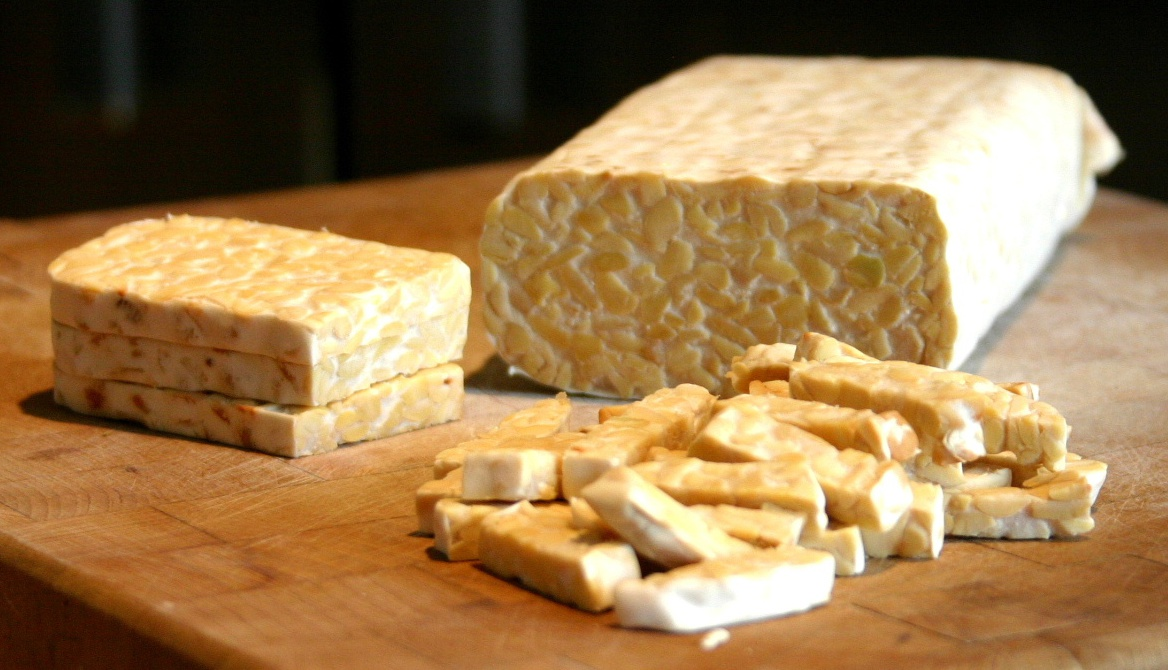 Sliced tempeh